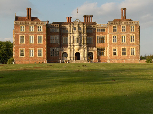 Picture of Bramshill House (now a police training college), nr Hazely, Hampshire